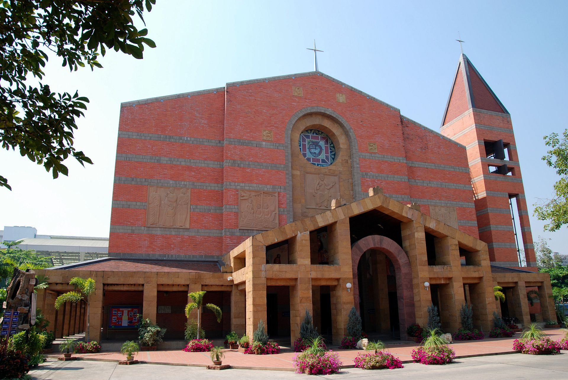 The Roman catholic cathedral of the Sacred Heart on Charoenprathet road in Chiang Mai; Sunday, February 28, 2010. The name in Thai script is อาสนวิหารพระหฤทัย (transliterated: Ason Wihan Phra Hathai)